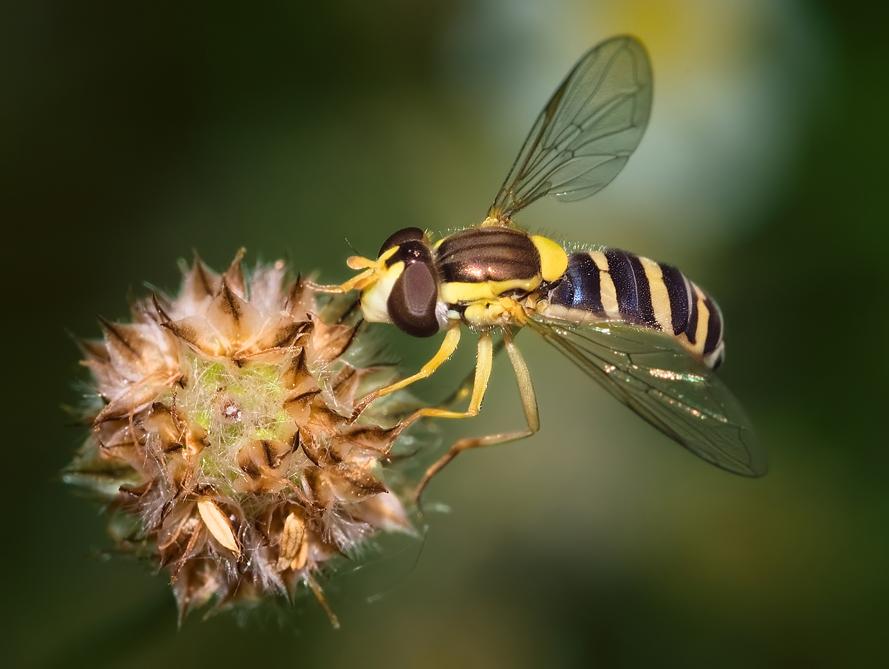 About 10 mm long female Sphaerophoria scripta hoverfly.